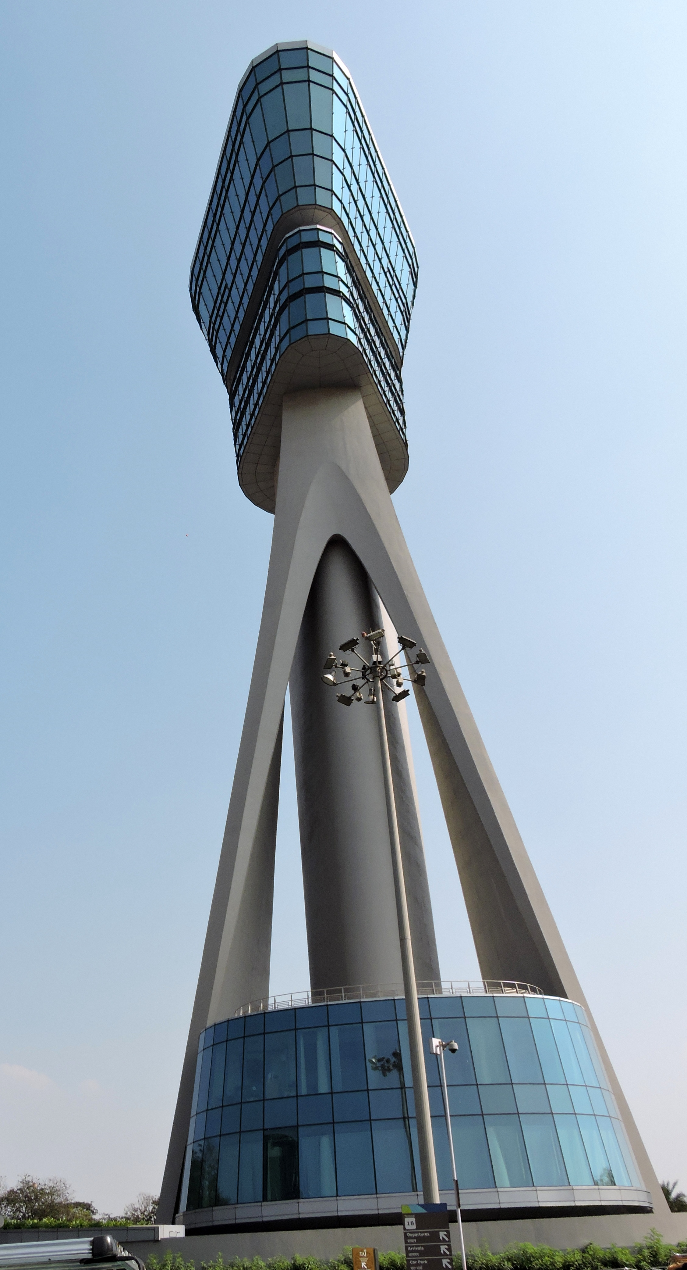 Air Traffic tower,Chhatrapati Shivaji International Airport,Mumbai, India